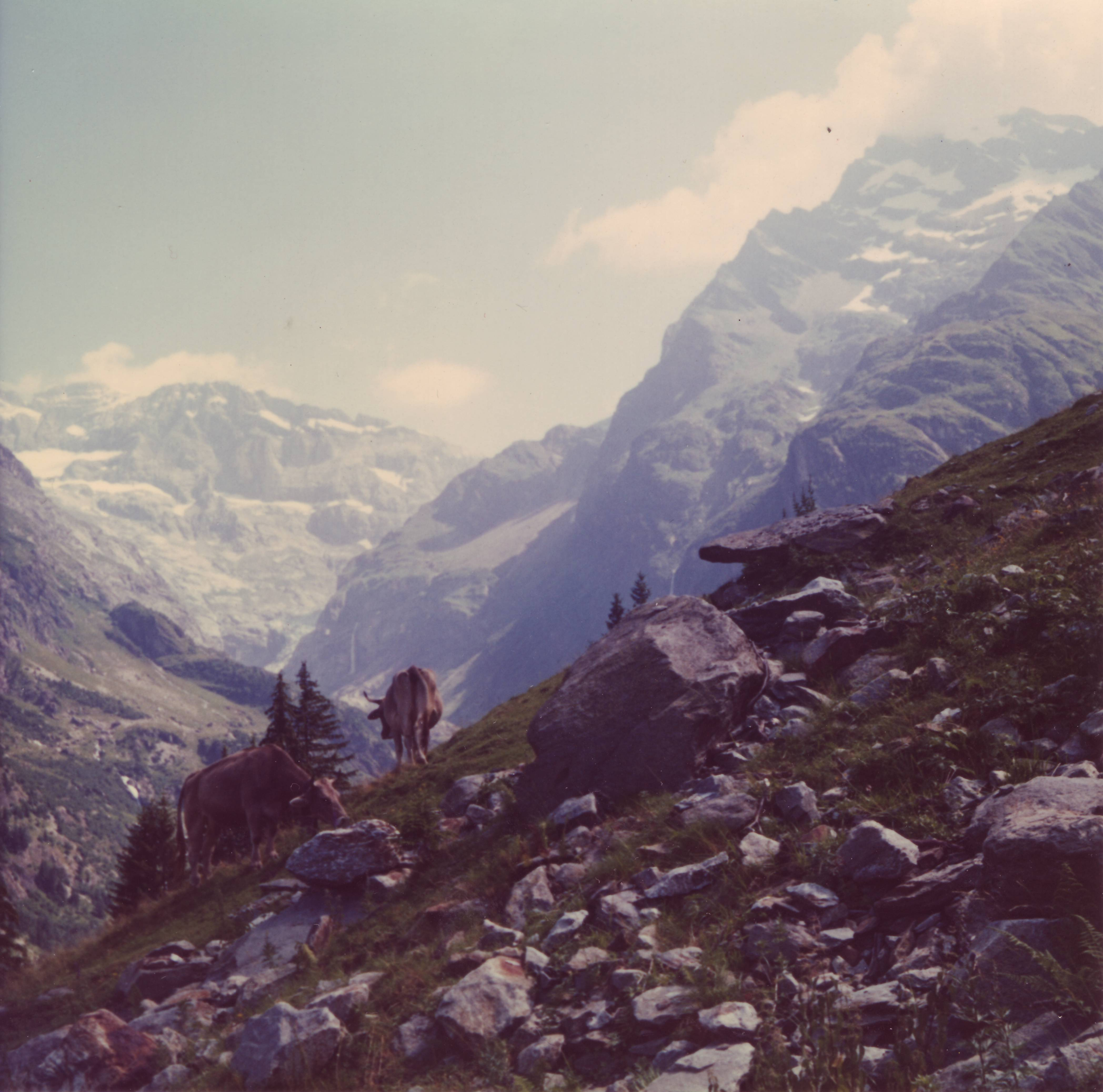 Dussistock, Maderanertal, Switzerland, in July 1971; at the back of the valley you can recognize the tongue end of Hufi Glacier - Düssistock, Maderanertal, Svislando, en julio 1971; je la fino de la valo vi povas rekoni la langofinon de Hüfi-Glaĉero